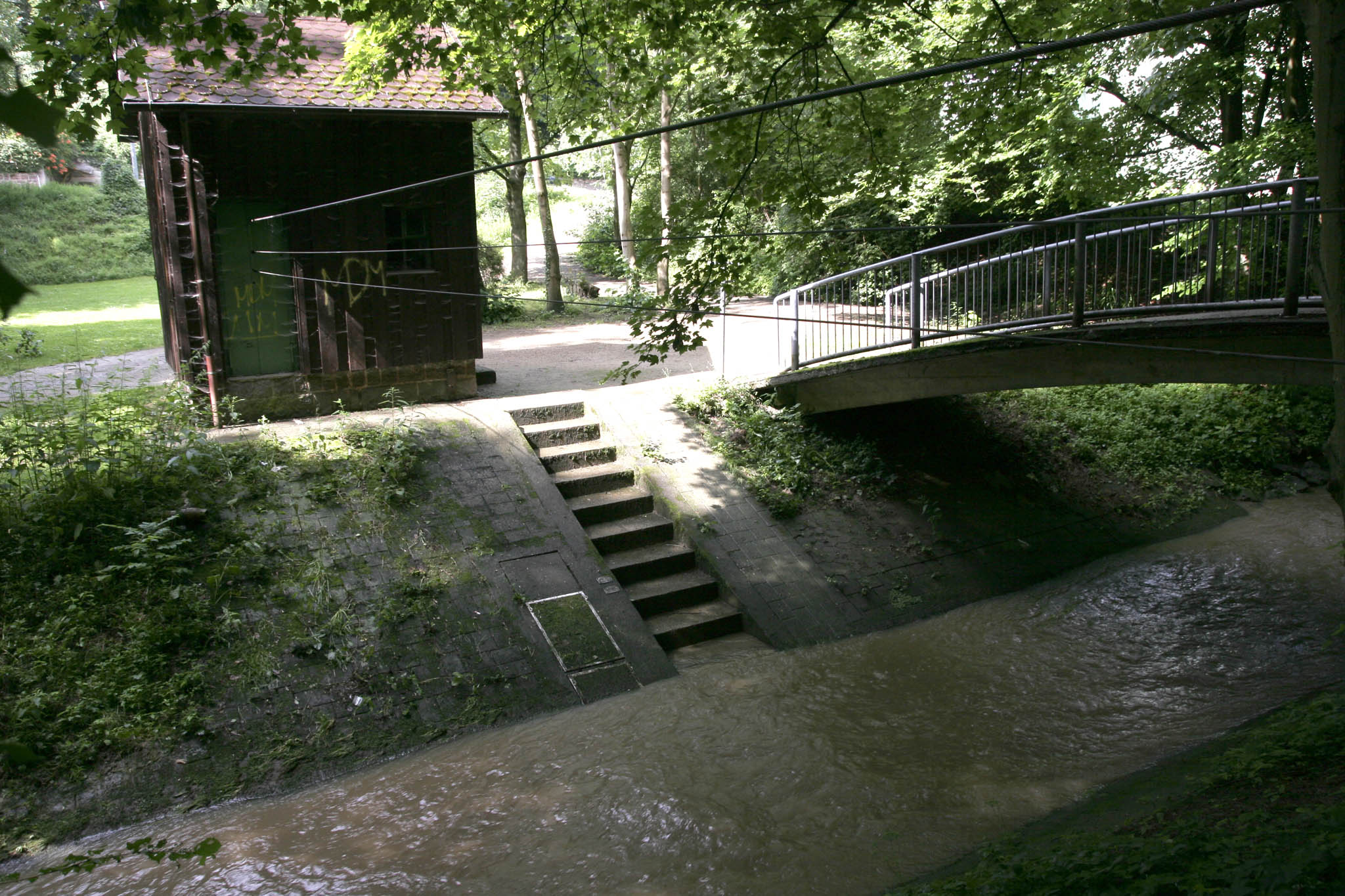 The Lauter (Winkelbach) creek in South-Hesse.